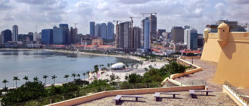 The Fortaleza de Sao Miguel (1576) watches over the south end of the bay at Luanda, Angola.